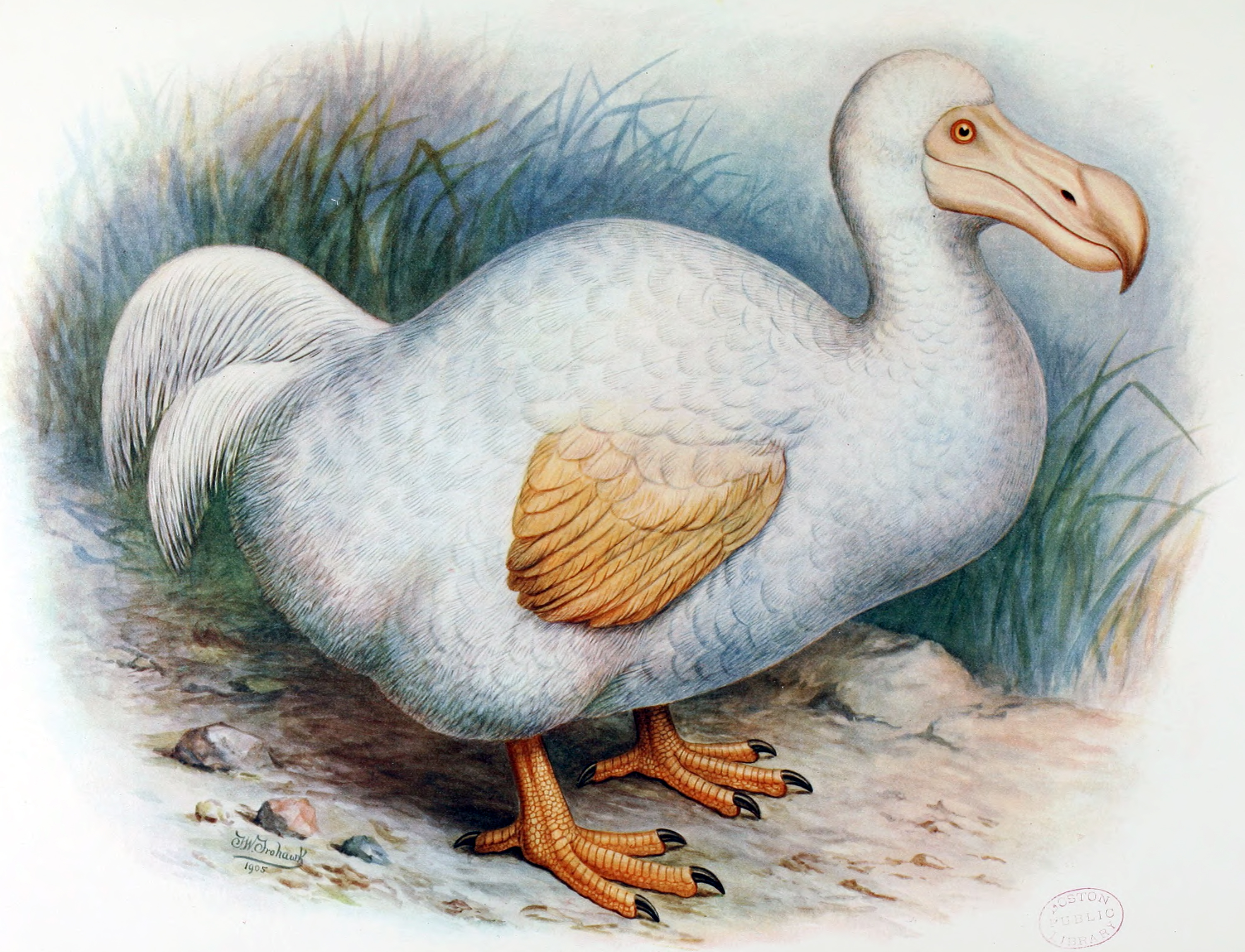 Drawing of White Dodo from Pierre Witthoos' picture, the bill and wing being reconstructed after the common Dodo. The supposed "White Dodo" is now thought to be based on misinterpreted reports of the Réunion Sacred Ibis and paintings of apparently albinistic dodos from Mauritius.